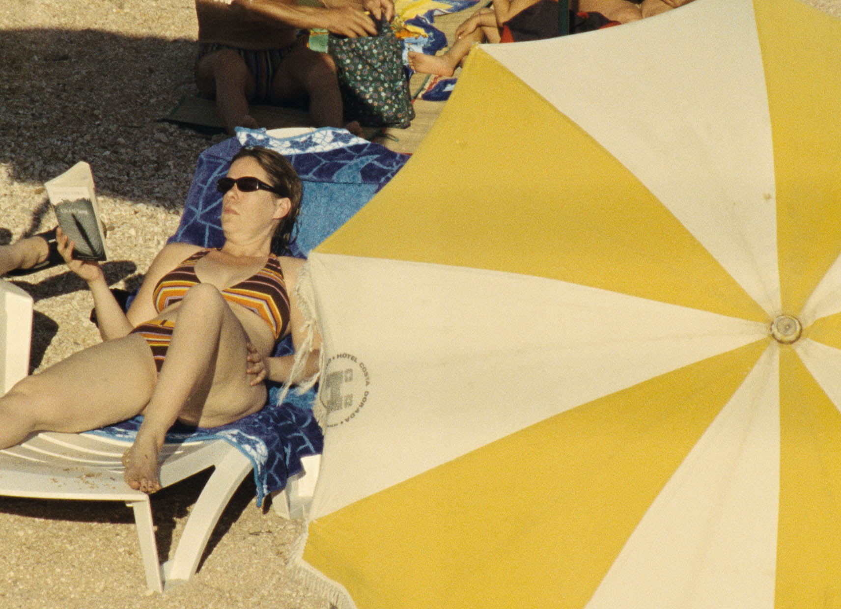 Still